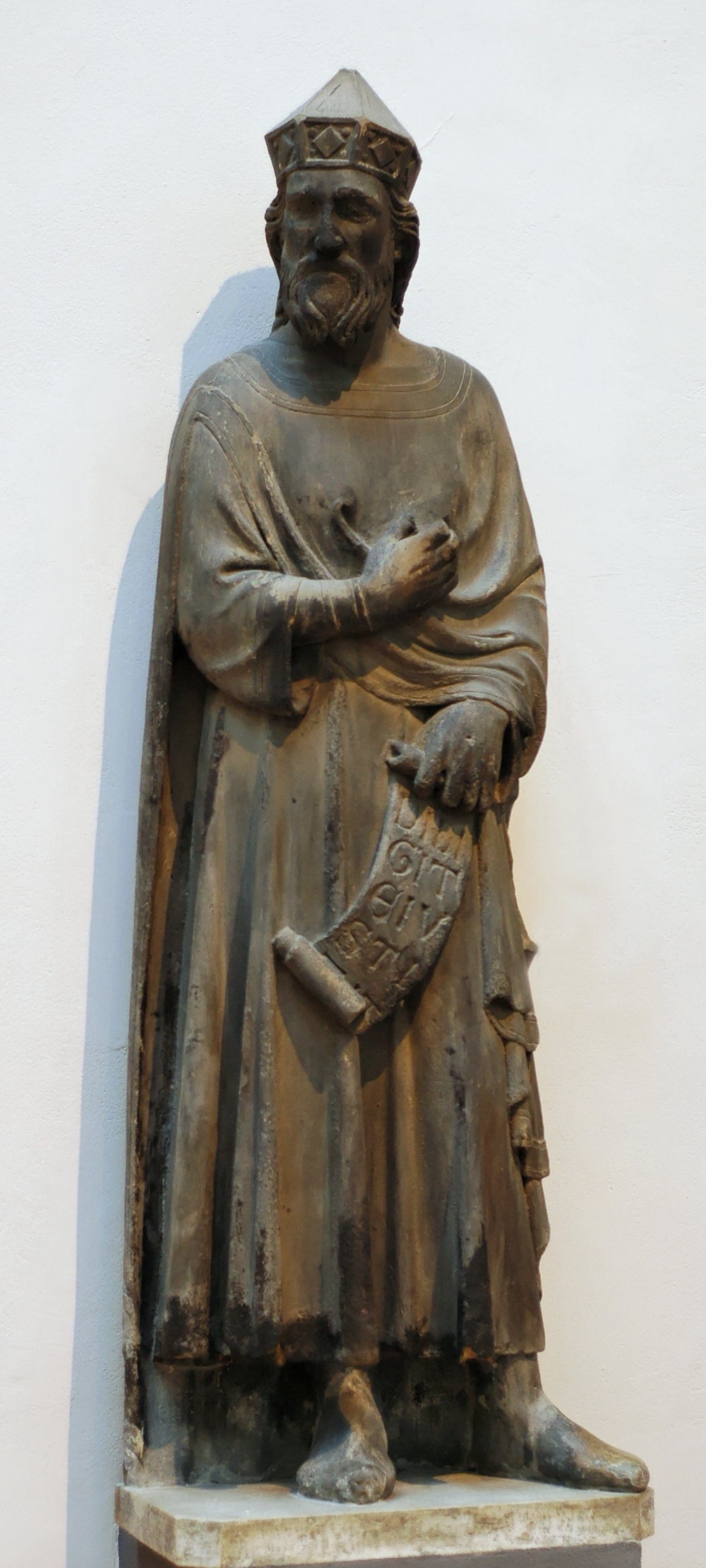 Prophet. From the southern side of the bell tower of the Duomo of Florence, Italy. Marble, Museo dell'Opera del Duomo.